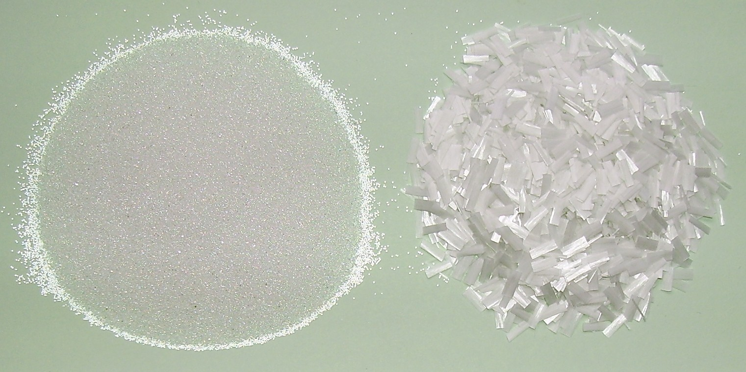 Examples of glass filler (microspheres) and glass material (cut fibers) for plastics reinforcement: glass microspheres (or glass beads); diameter: about 300 µm, specific gravity: 2.5. Mineral filler mainly used to increase the stiffness of a thermoset resin and to make road safety markings; 5 mm length chopped strands of fiberglass used to reinforce thermoset resins.